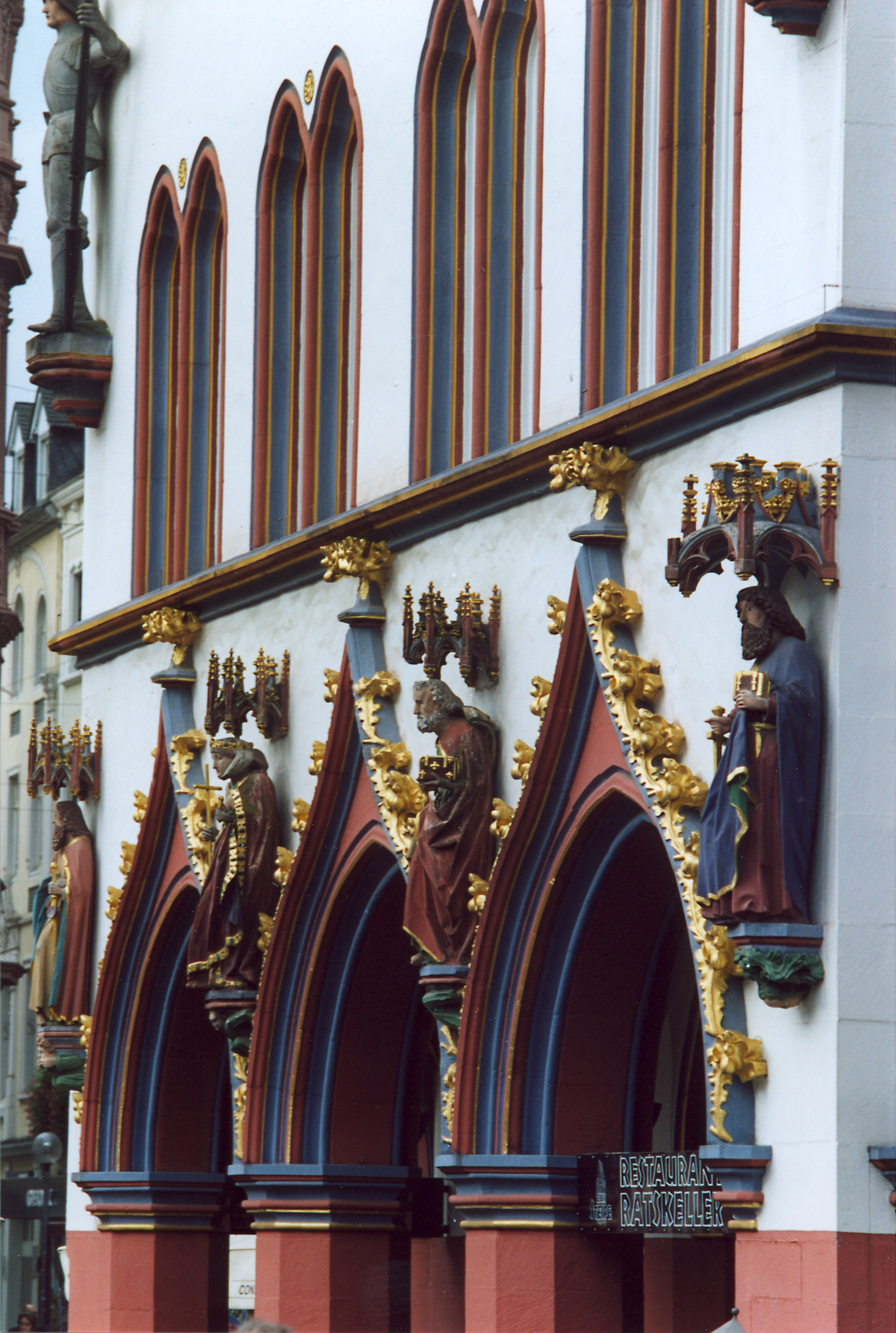 Exterior detail of the Steipe house in Trier